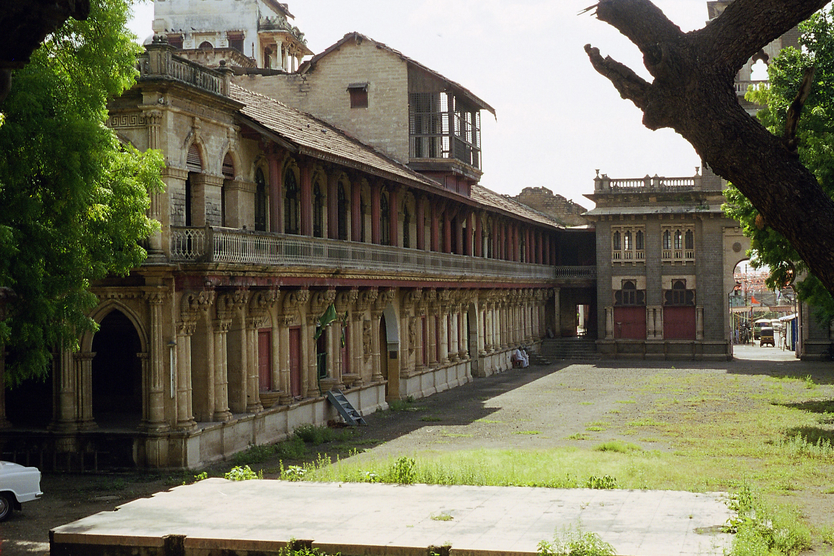 Naulakha Palace, Gondal, Gujarat, India